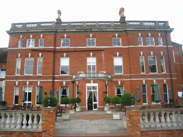 South facade - Oakley Hall Hotel, Hampshire